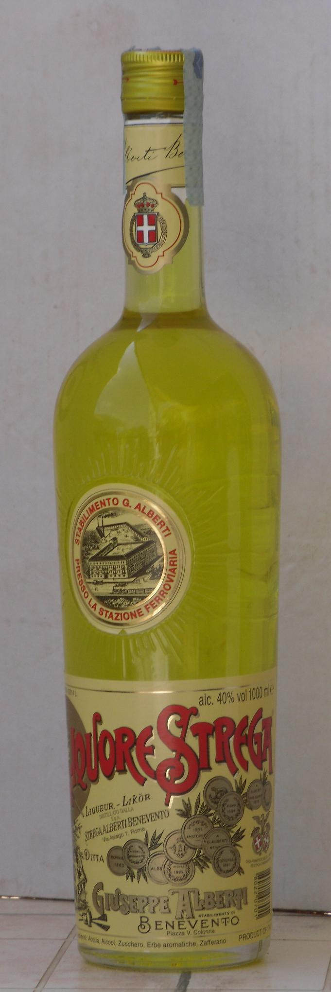 A full bottle of the liqueur Strega.